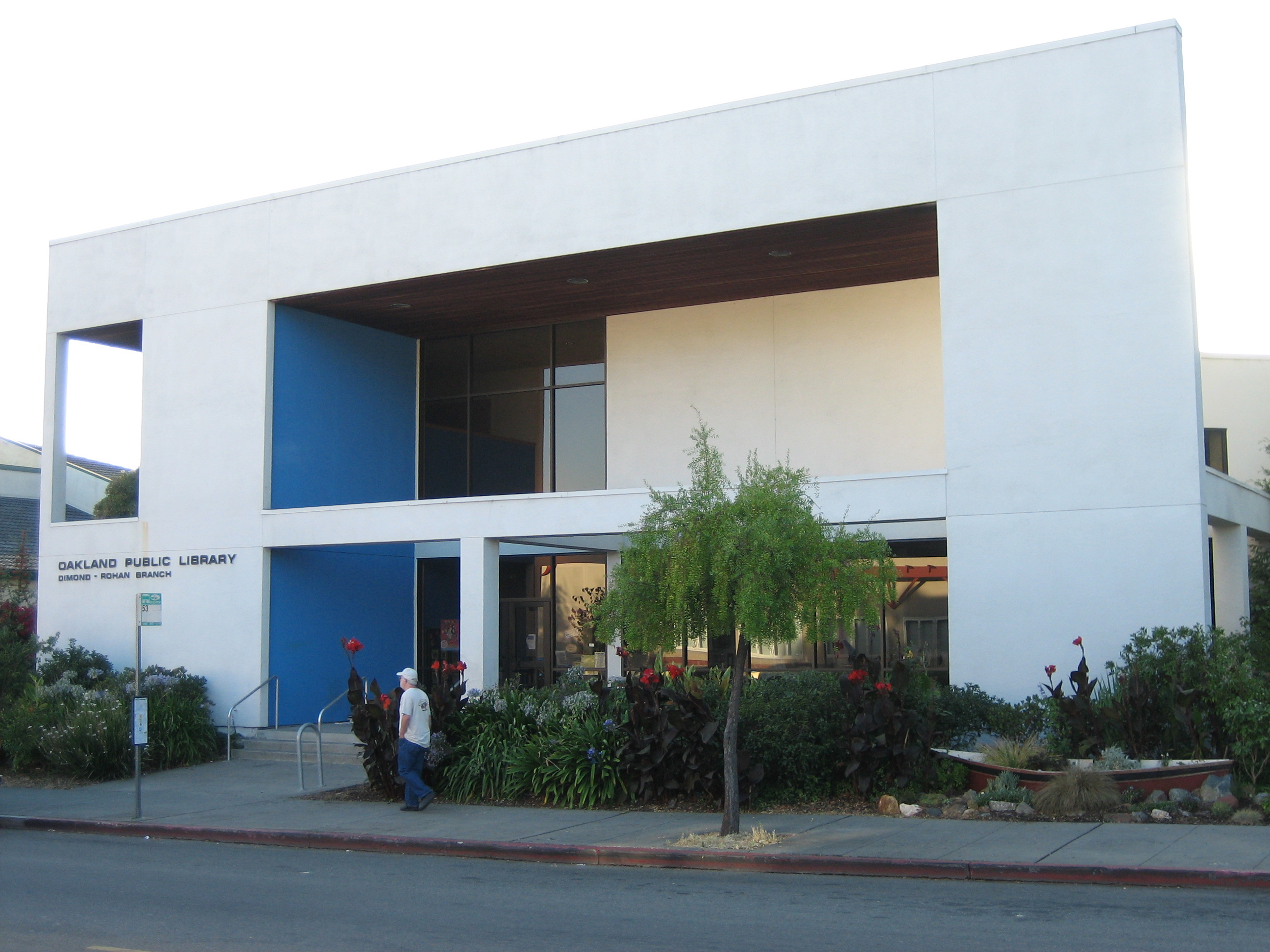 The Dimond Branch Library — in the Dimond District, of Oakland, California. from: Category:Images of Oakland, California.